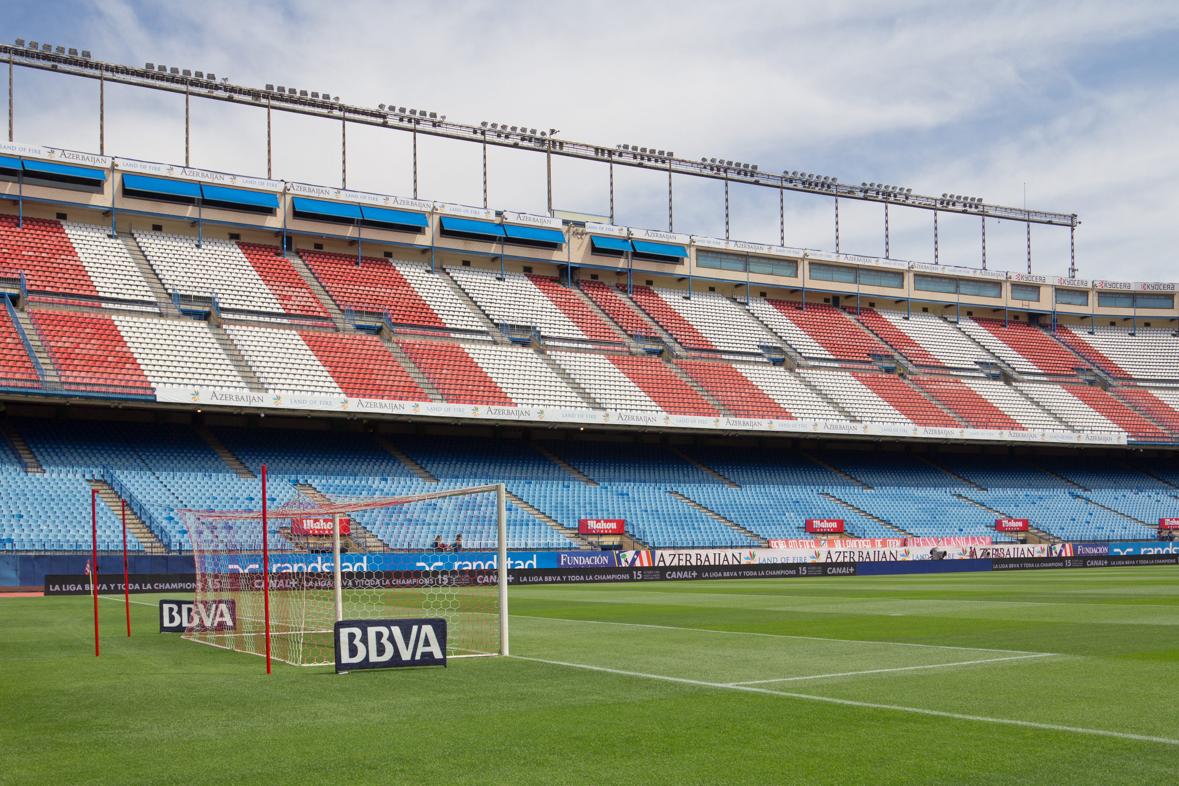 Vicente Calderón Stadium, of Club Atlético de Madrid, in Madrid, Spain.